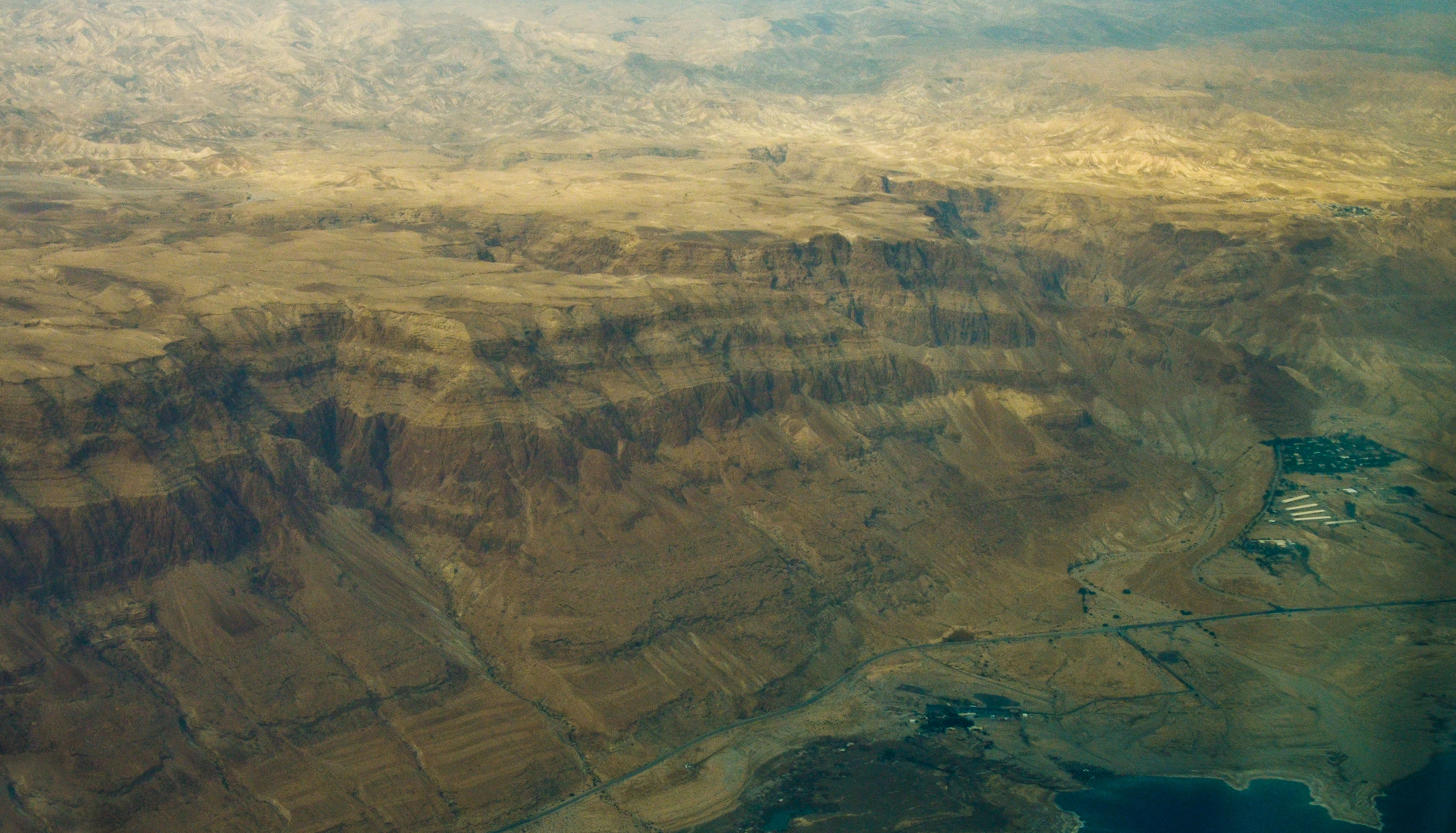 Shot taken from plane flown by Ilan Maytal